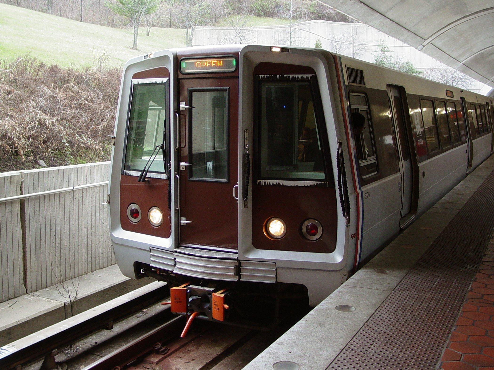 Washington Mero, CAF 5026 railcar leads a Green Line train to Greenbelt at Fort Totten station lower level in Washington DC.